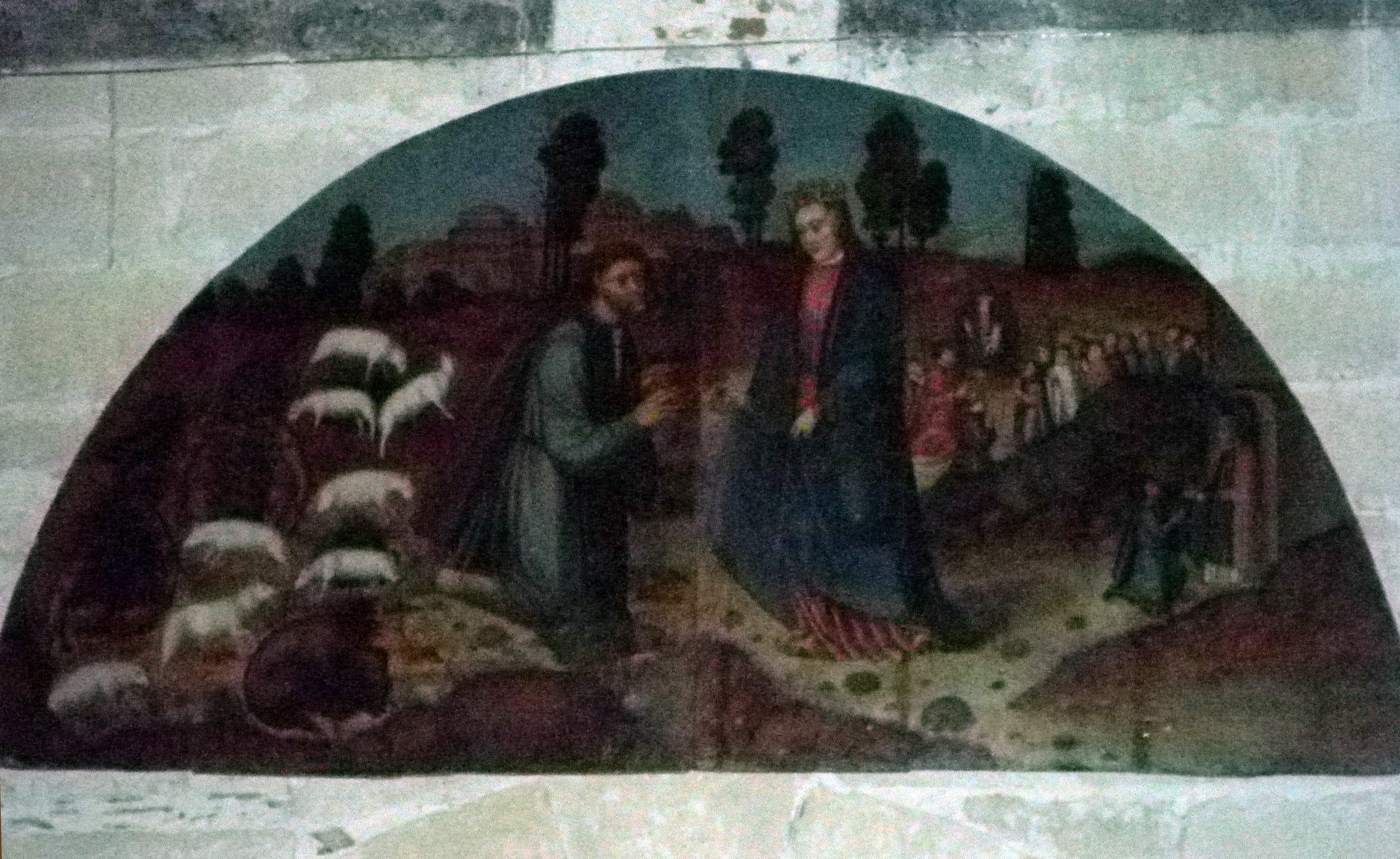 Picture depicting the apparition of Mary to a shepherd at the hill where the village of Santa María la Real de Nieva will be built